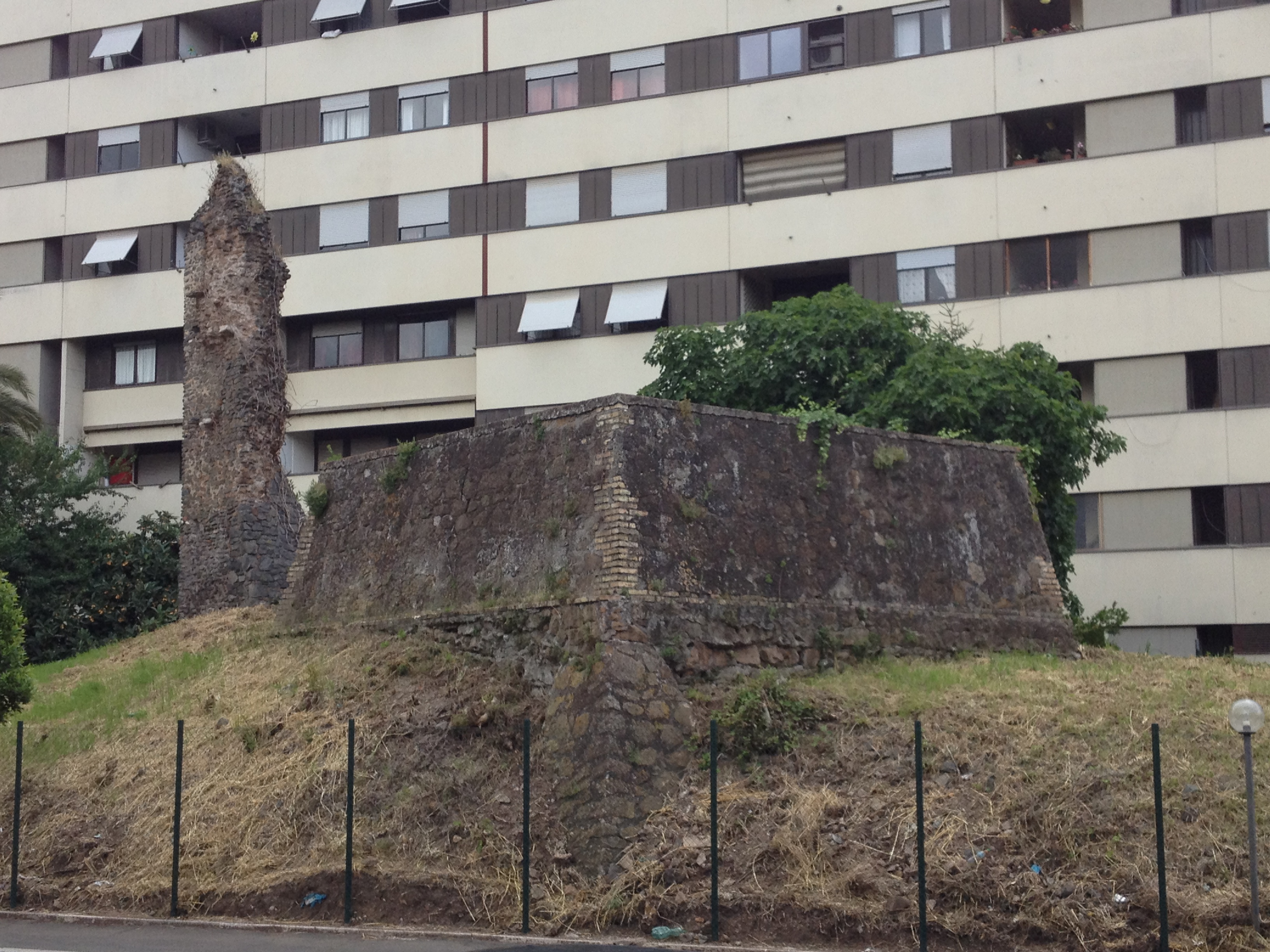 View of Torre Brunori, Spinaceto, Rome, Italy.